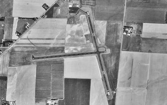 USGS digital orthophoto of Langlade County Airport in Antigo, Wisconsin, United States